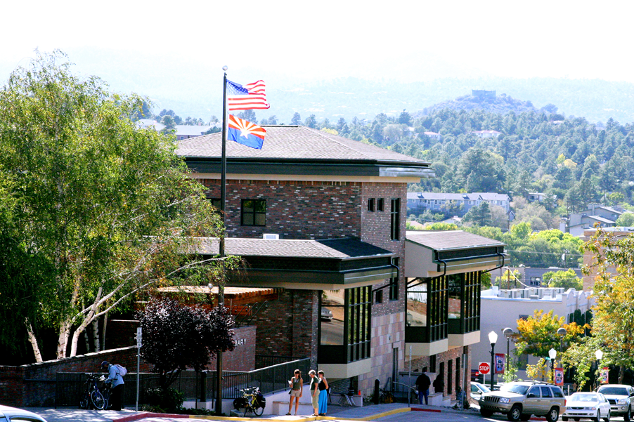 from above Library on Goodwin Street